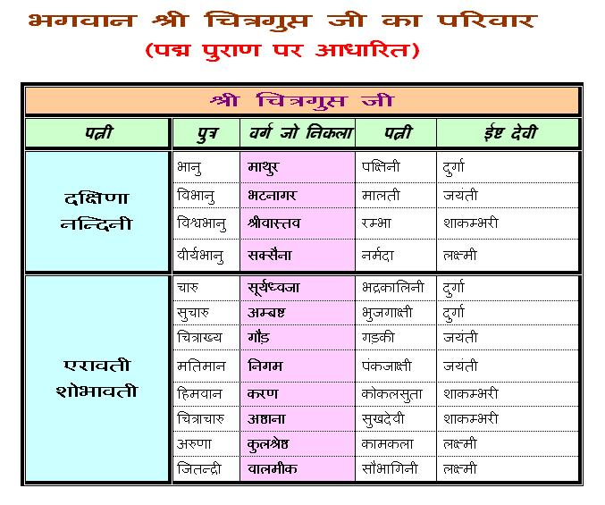 dear sir, This is the good knowledge but there is the diffrerence in the inflomation as Matiman( Saxena) was the son of Shobhavati,but according to the table this is not the coorect information.Pls check both the information and revert back. Alok Saxena C-1/Thana Cant. KAnpur. 09415477736.